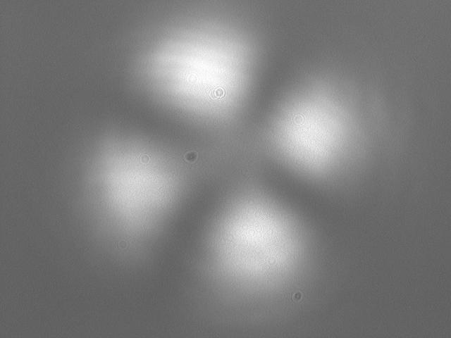 Image of an extinction cross This photo was taken by User:Linhle, who does not yet have access to upload images. Linhle has released the image under the Creative Commons Attribution license.